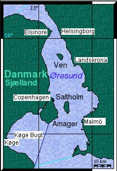 Made of "Amager_i_Sund_ubt_1_DA.png", indicating the location of Køge Bugt (Køge Bay) in Øresund